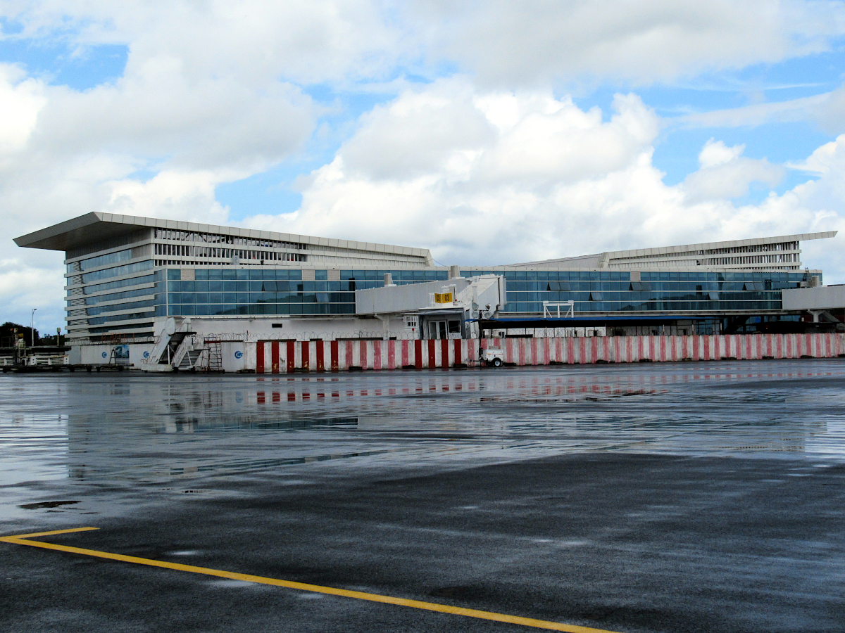 New Terminal at Roberts International Airport under construction